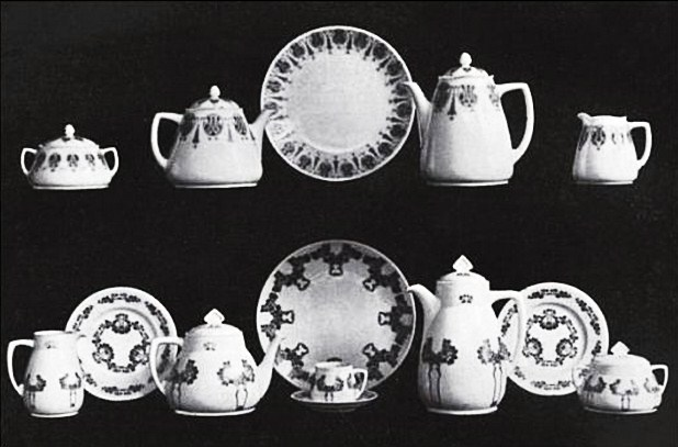 Hugo Scheinert - design for the factory porcelain Hermann OHME, Niedersalzbrunn